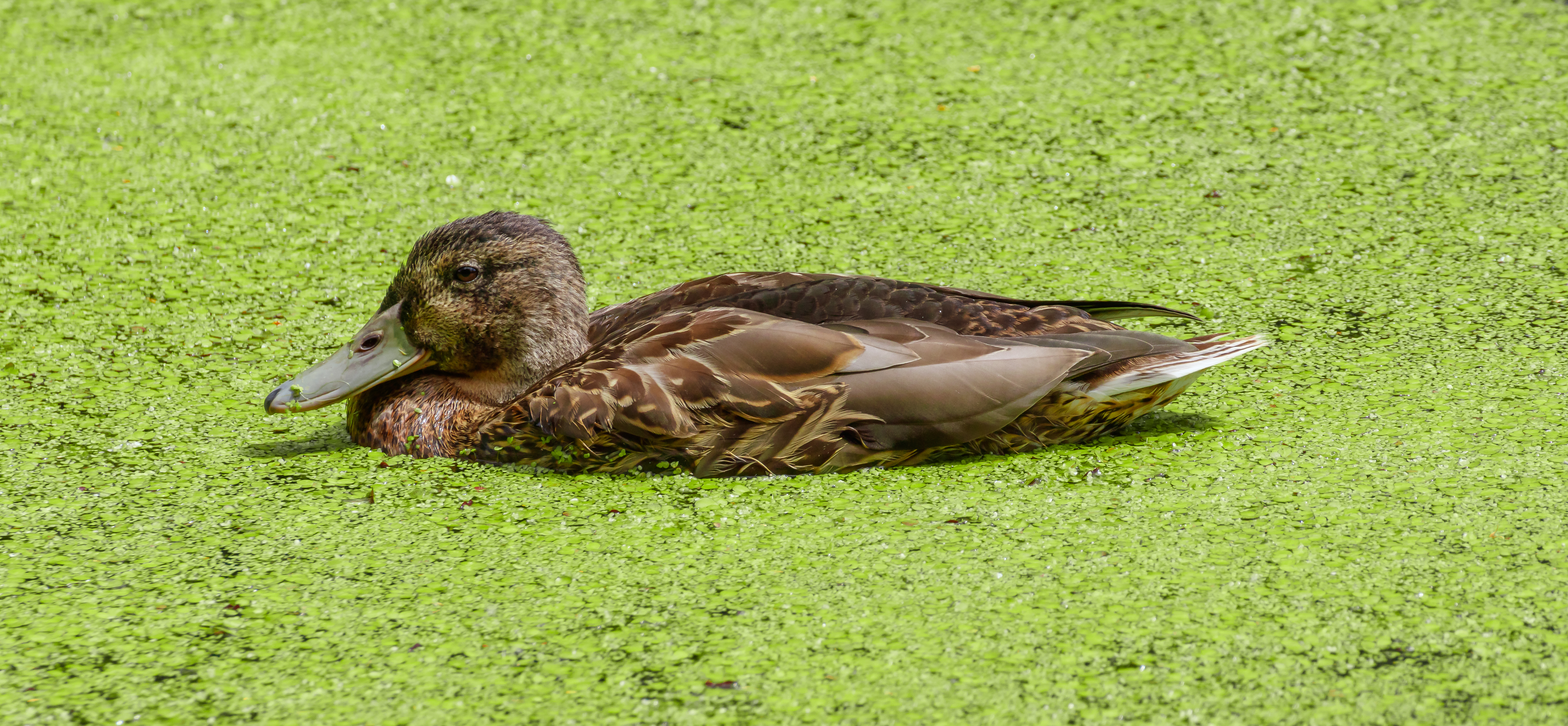 Anas platyrhynchos Linnaeus, 1758 (Mallard) swimming in Lemna minor (Common Duckweed); Weiherwald, Weiherfeld, Karlsruhe, Germany.